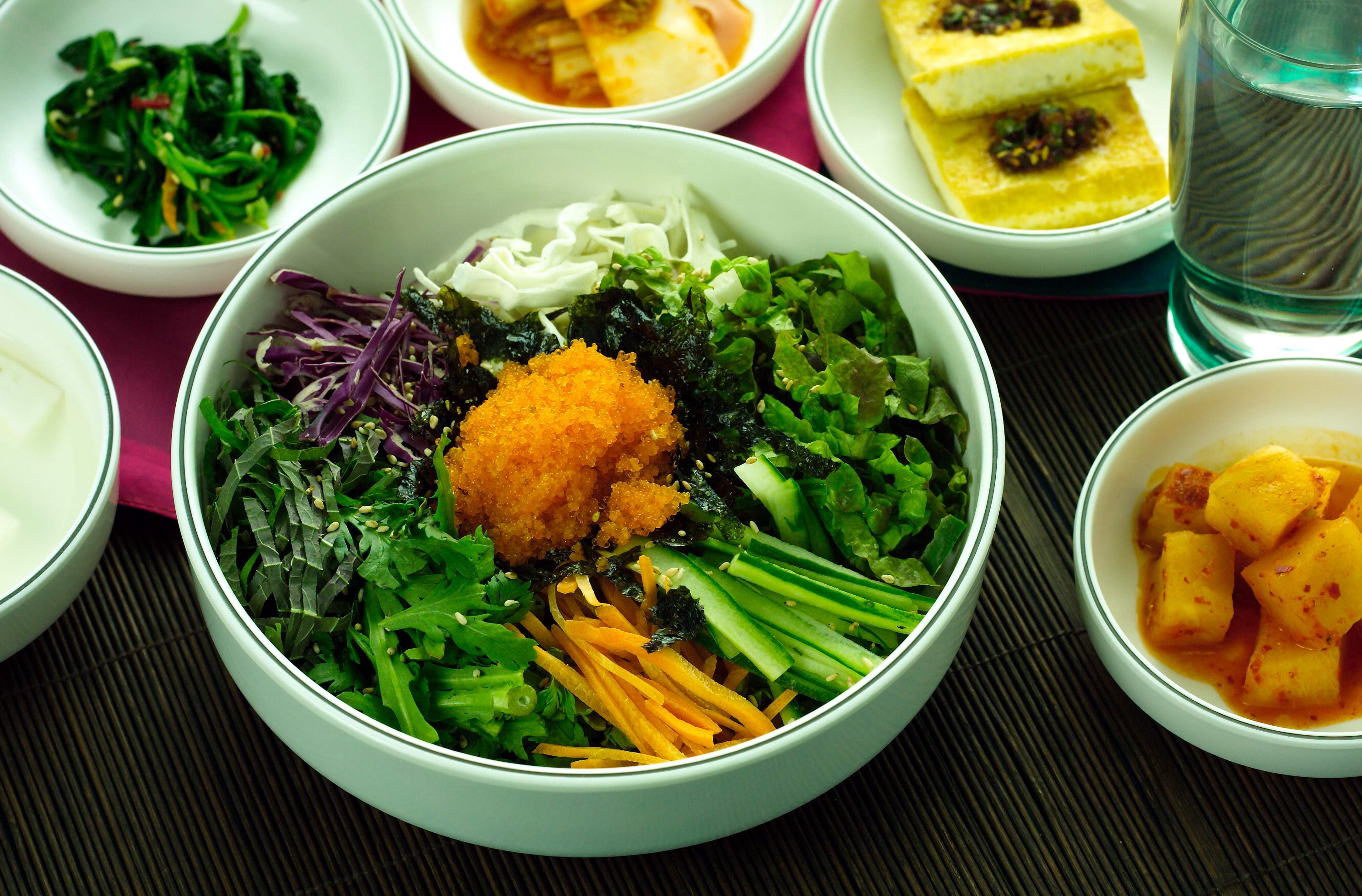 Albap